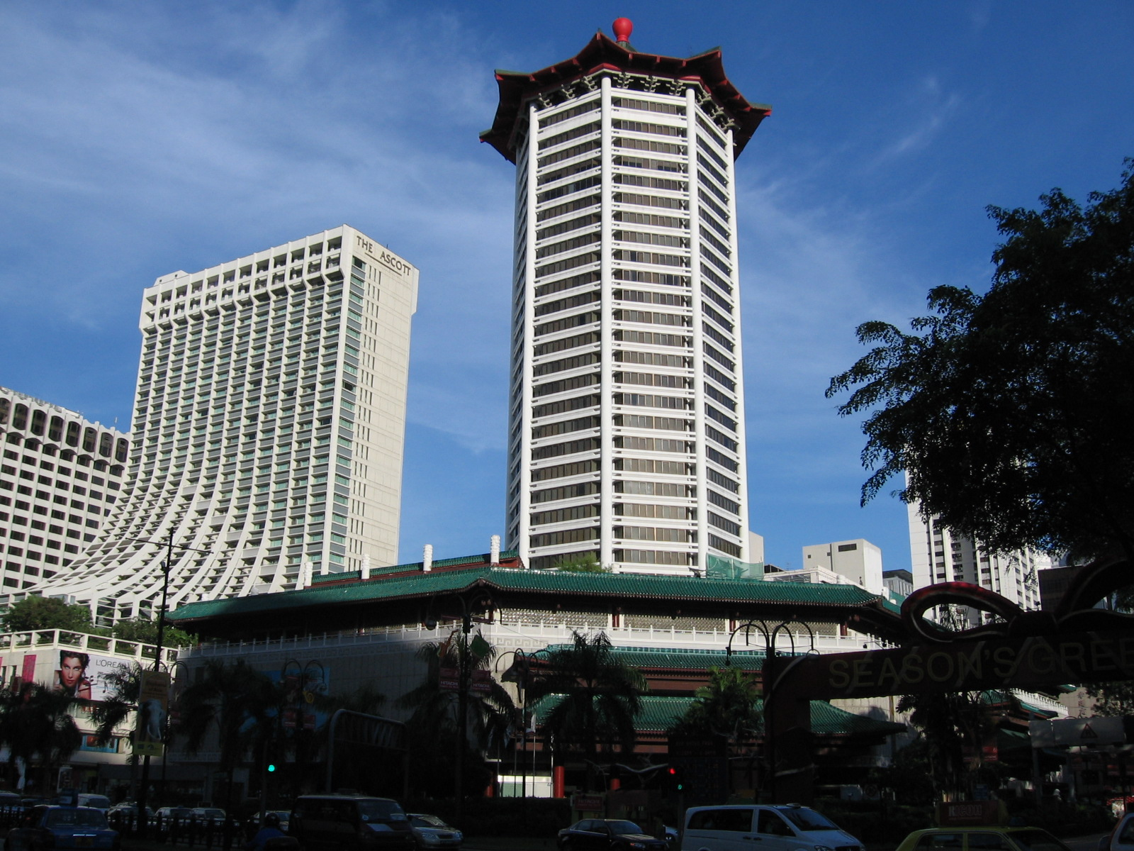 Marriott Hotel and Tang Plaza. Taken by User:Sengkang of ENglish.Wikipedia in Dec 2005.